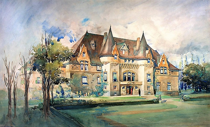 R.B. Angus home at Senneville, Quebec - Pine Bluff. Designed by the Maxwell Brothers of Montreal